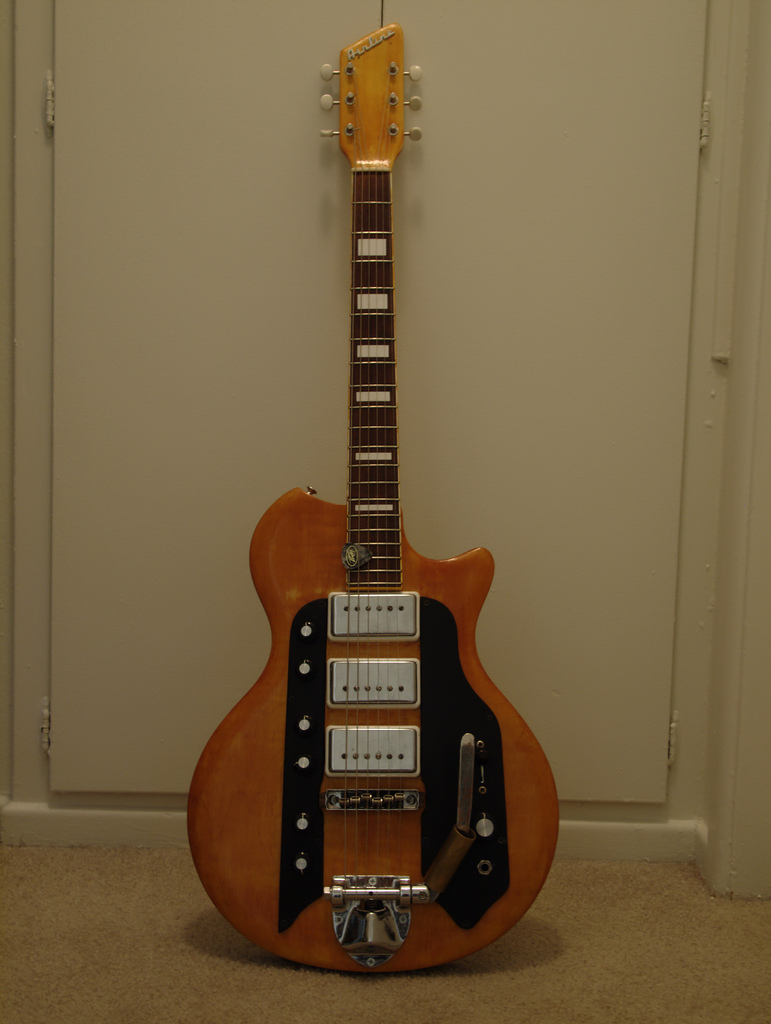 1962 Airline Three Pickup (a.k.a. Town and Country) guitar finishing, after the finish has cured and been buffed, all electrical components have been reattached, and the guitar has been reassembled (20100220)